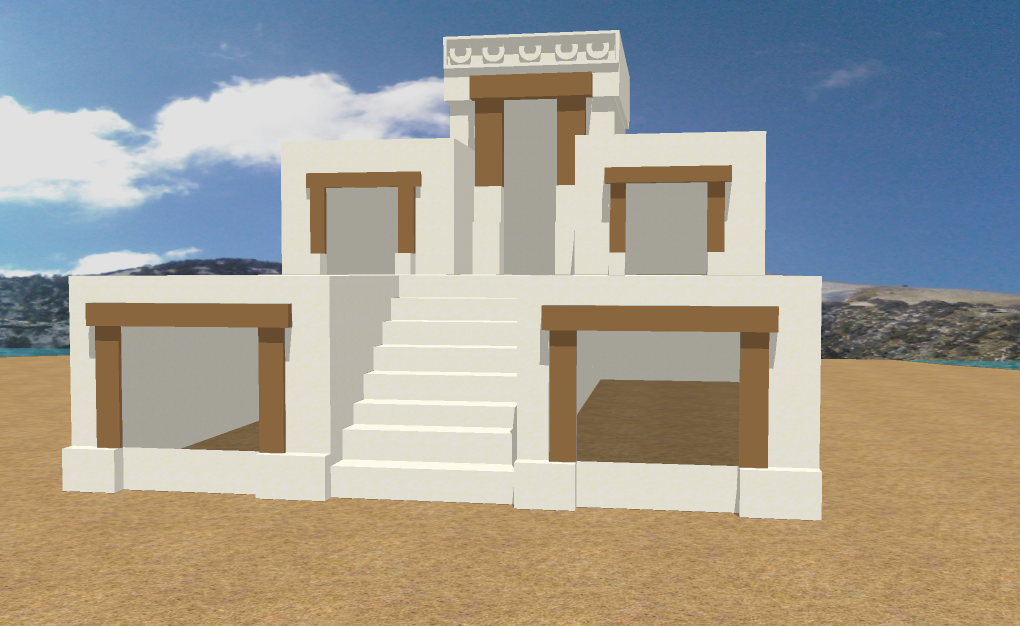 Model of Moctezuma's palace. Entirely my work.